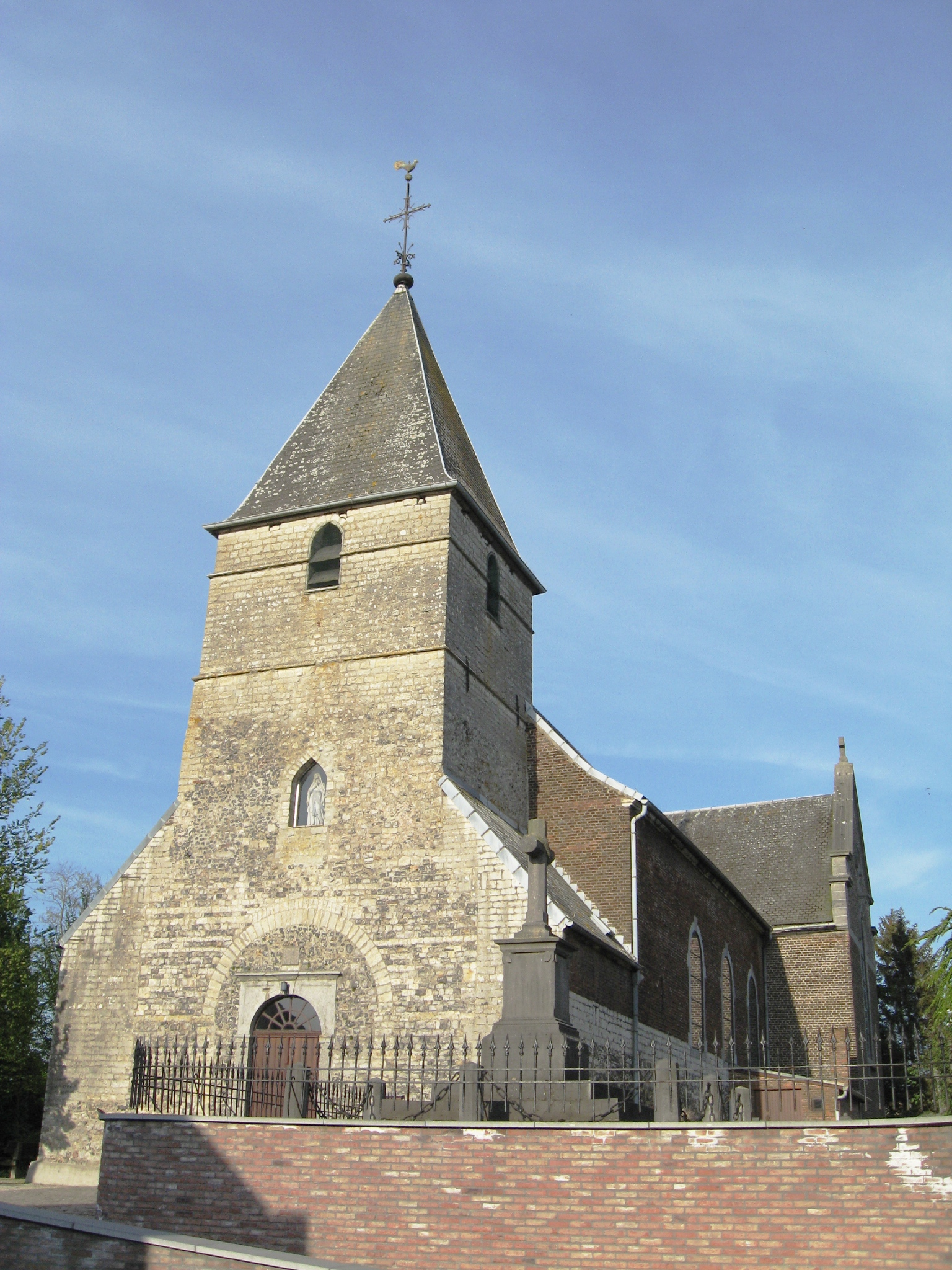 Church of Saint Blaise in Grand-Hallet, Hannut, Liège, Belgium